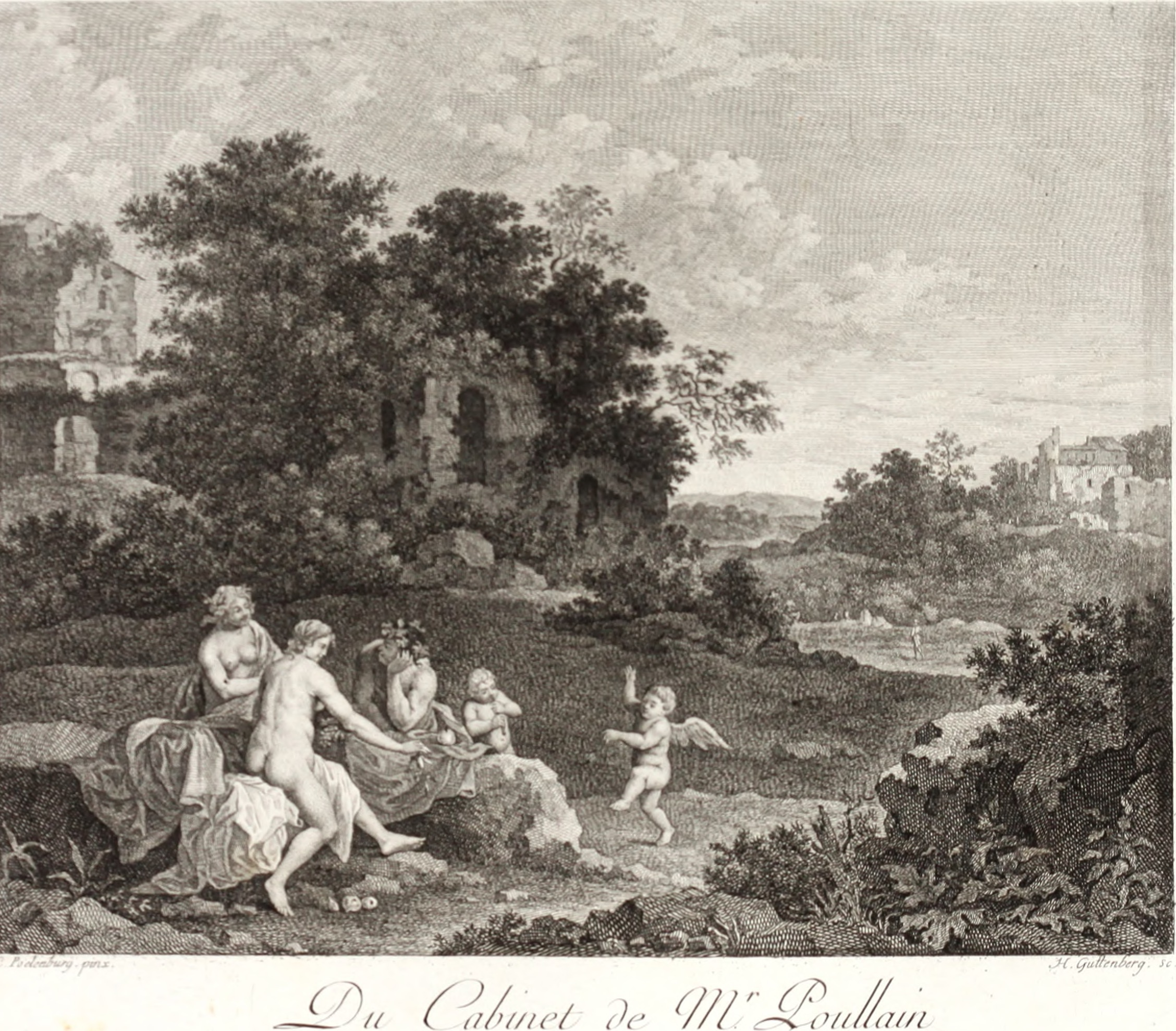 Title: Collection de cent-vingt estampes, gravée d'après les tableaux & dessins qui composoient le cabinet de m. Poullain ... précédée d'un abrégé historique de la vie des auteurs qui la composent ... Cette suite a été exécutée sous la direction du sieur Fr. Basan ... par de jeunes artistes des deux sexes, dont les talens se font connoître & accroissent de jour en jour. Le sr. Moitte ... en avoit fait les dessins, d'après les tableaux .. Year: 1781 (1780s) Authors: Poullain, d. 1780 Basan, François, 1723-1797 Moitte, painter Subjects: Painting Drawing Publisher: Paris : Se vend chez Basan et Poignant Text Appearing Before Image: ' Text Appearing After Image: '